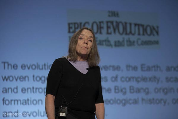 Ursula Goodenough lecturing for her team-taught course The Epic of Evolution at Washington University